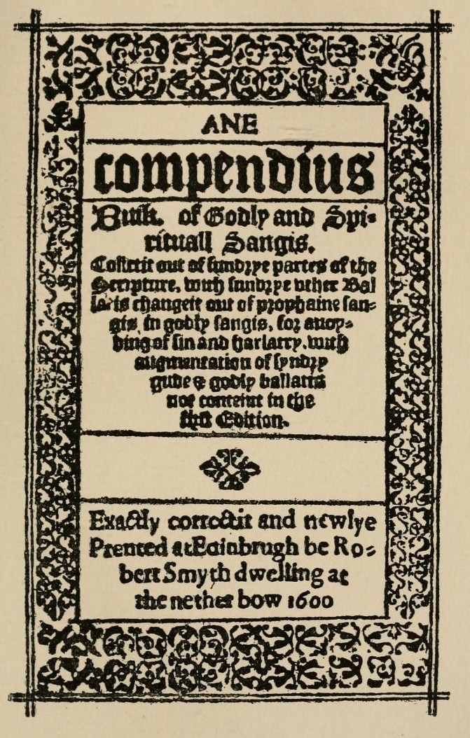 A reprint of the 1600 front piece from The Gude and Godlie Ballatis